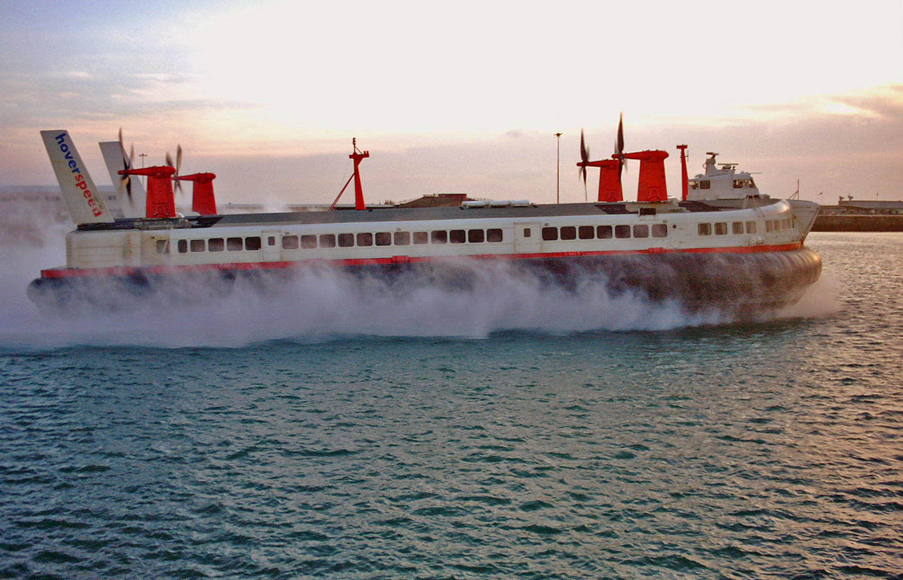 SR.N4 Hovercraft (Mountbatten Class). Photo taken on its last day of service (01 October 2000).